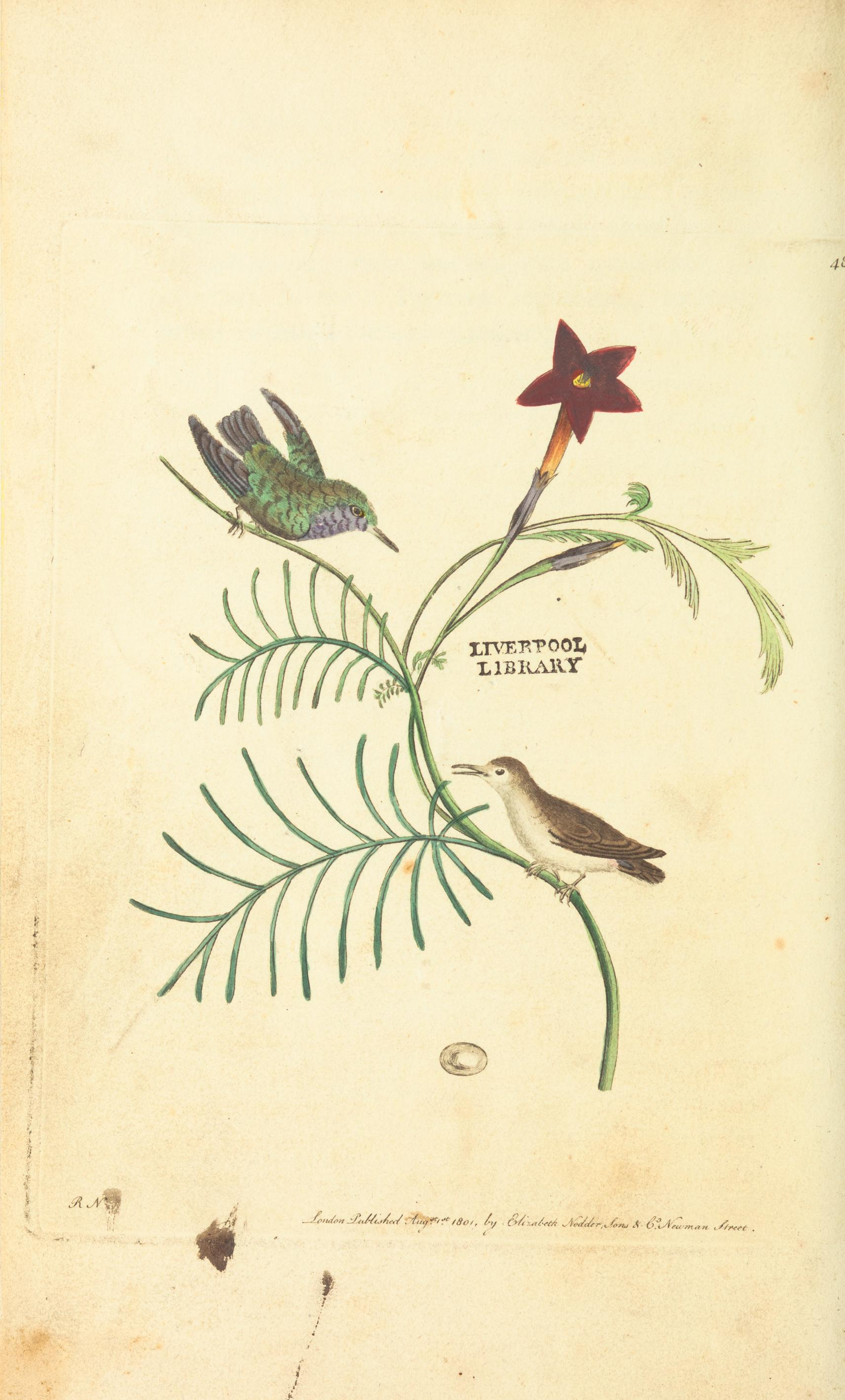 The Least hummingbird (Trochilus minimus) drawn/engraved(?) by R.N. (Richard Polydore Nodder) and published August 1, 1801, by Elizabeth Nodder, Sons & Co